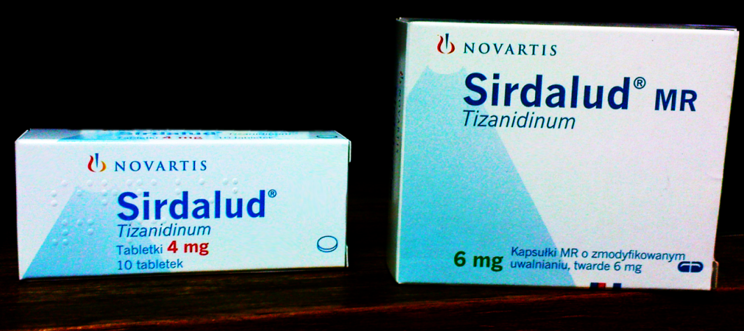 Sirdalud - Tizanidine